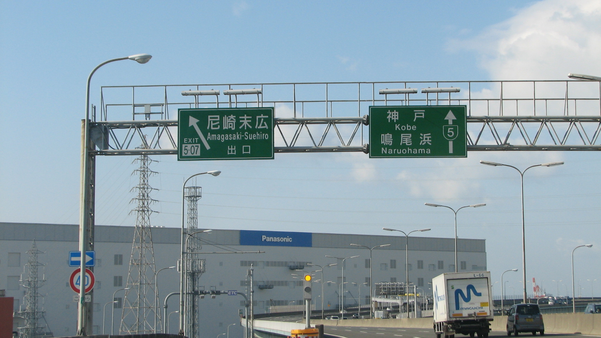 Hanshin Expressway Amagasaki-Suehiro IC (for Kobe)